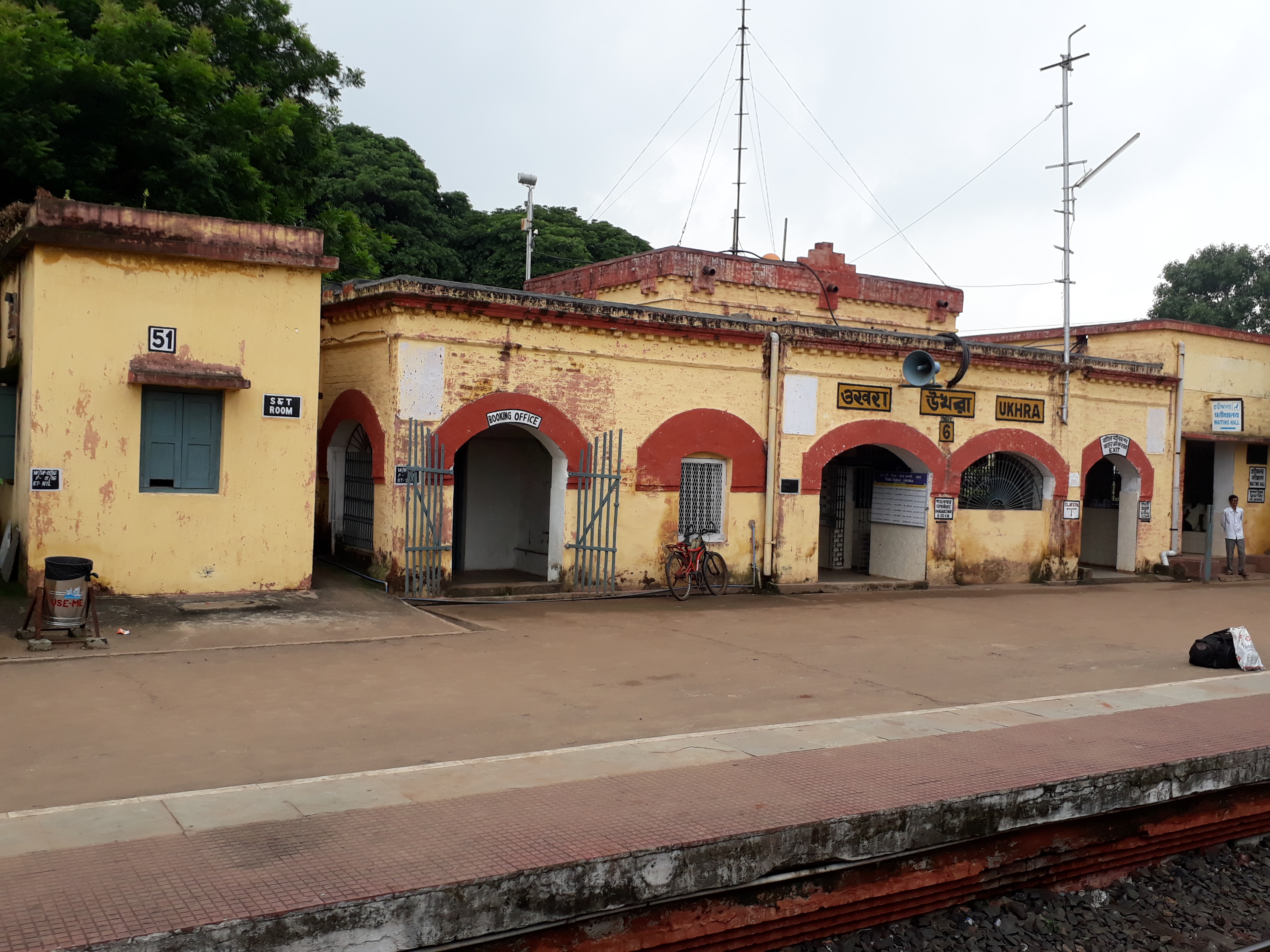 Railway Stations of West Bengal in Sainthia to Andal line.